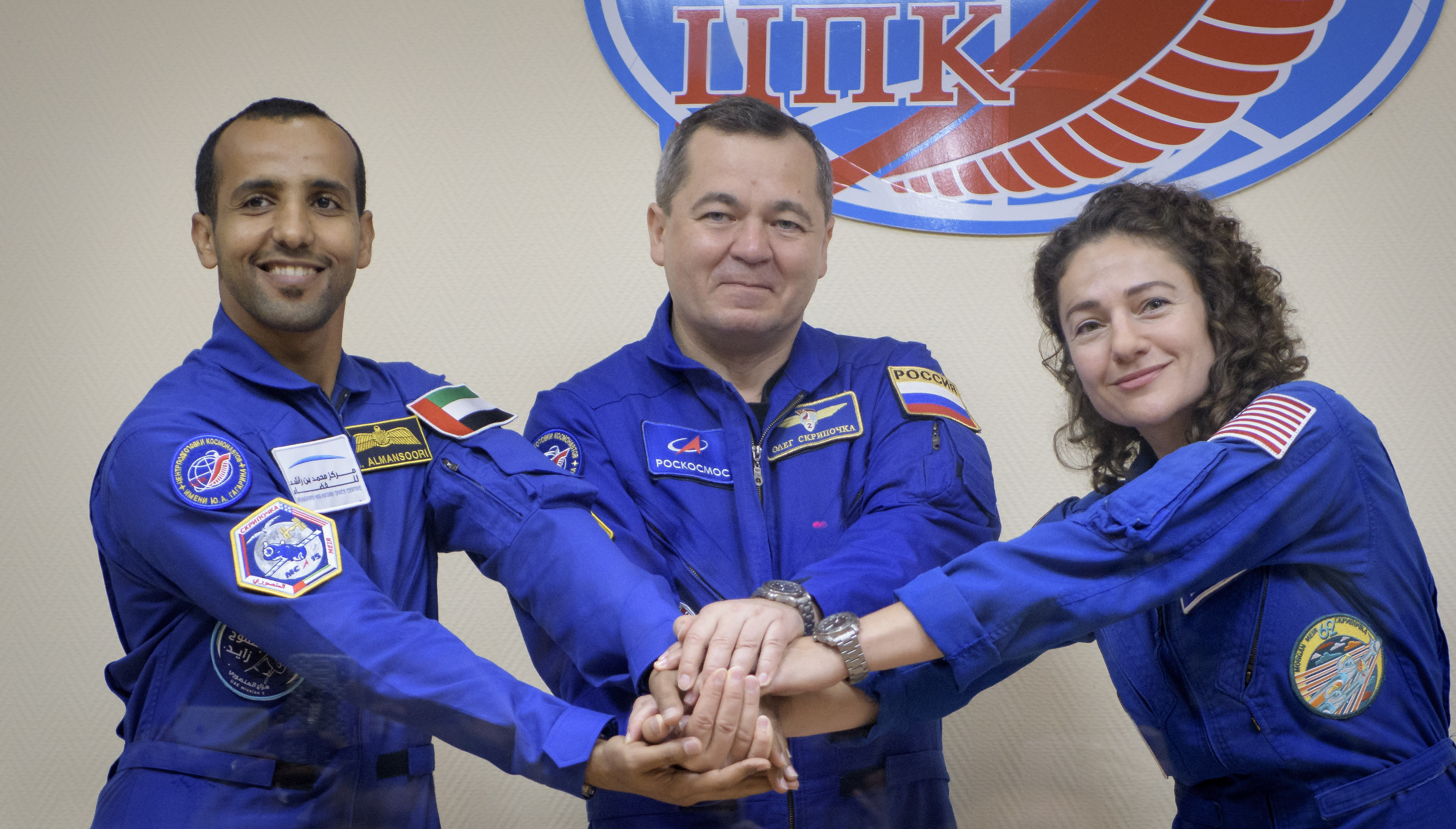 Spaceflight participant Hazzaa Ali Almansoori of the United Arab Emirates, left, and Expedition 61 prime crew members Oleg Skripochka of Roscosmos and Jessica Meir of NASA, pose for a photograph at the conclusion of a press conference, Tuesday, Sept. 24, 2019 at the Cosmonaut Hotel in Baikonur, Kazakhstan. Meir, Skripochka, and Almansoori will launch September 25th on the Soyuz MS-15 spacecraft from the Baikonur Cosmodrome to the International Space Station.